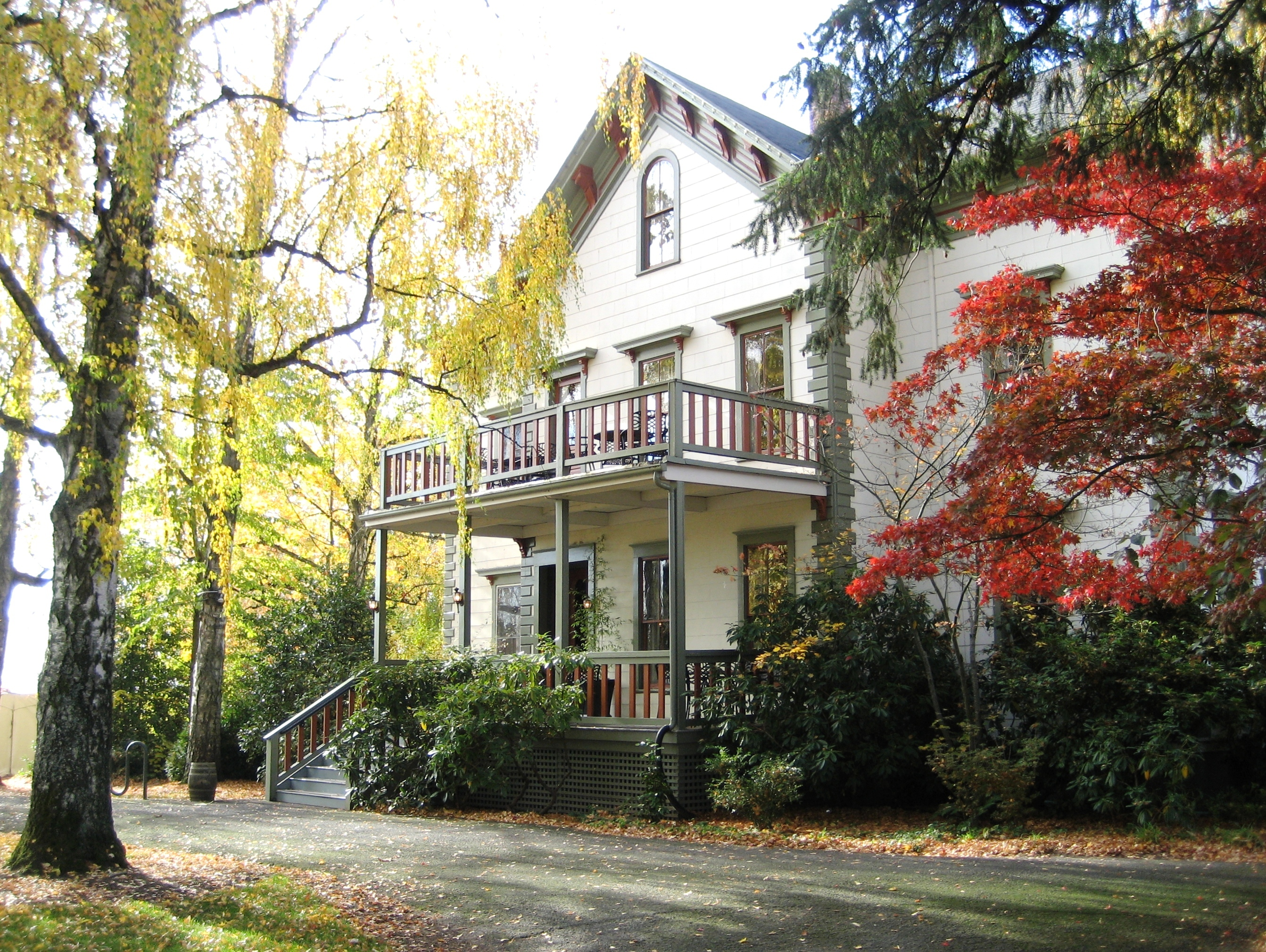 Imbrie Farm in Hillsboro, Oregon. Imbrie Farm is listed on the National Register of Historic Places.